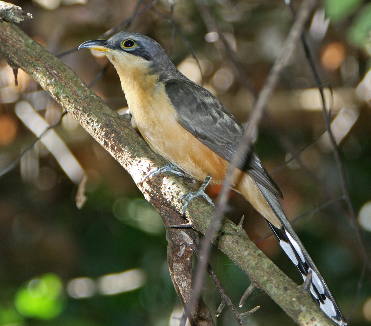 Mangrove Cuckoo in Parque Nacional Manuel Antonio, Costa Rica